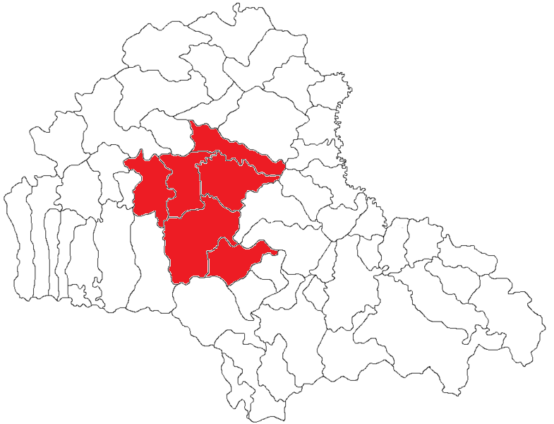 Dumbrava Narciselor region in Brasov County, Romania